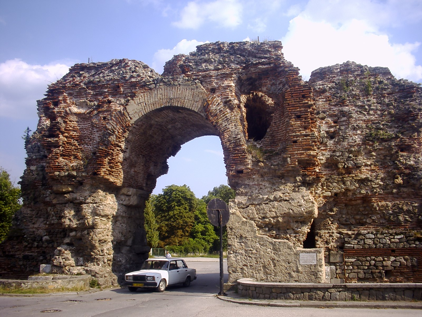 Hisar Kapia. Location: Hisar, Bulgaria. Photographed by me on Sep 12, 2004.